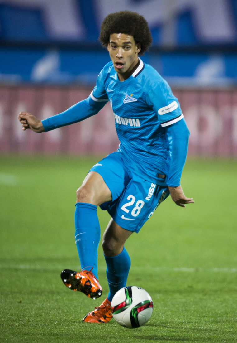 Axel Witsel